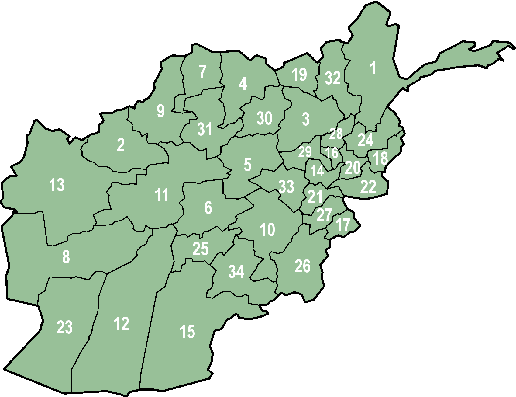 Afghanistan34Provinces-french numbering